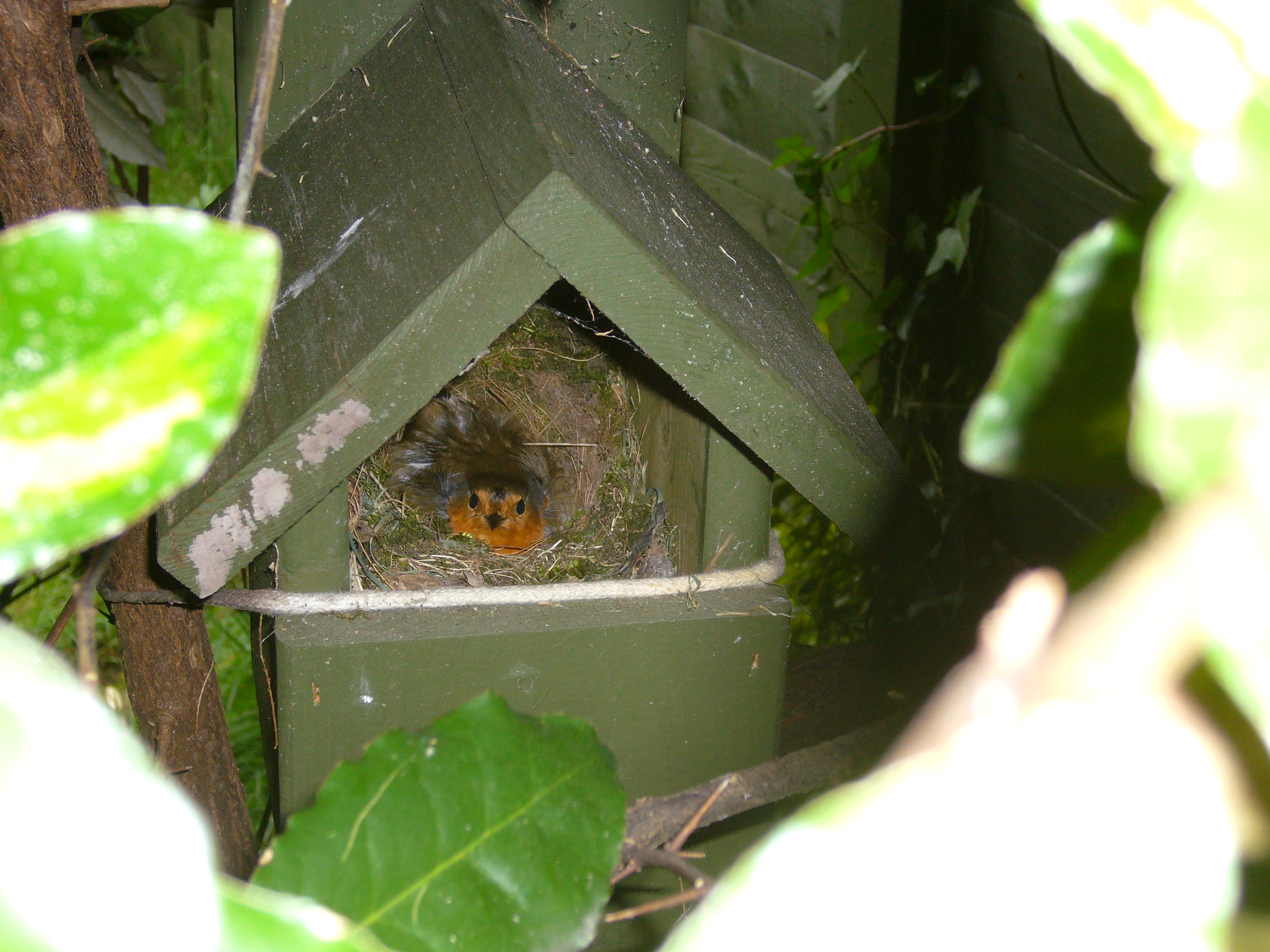 Female Robin on its nest in my garden, incubating eggs.